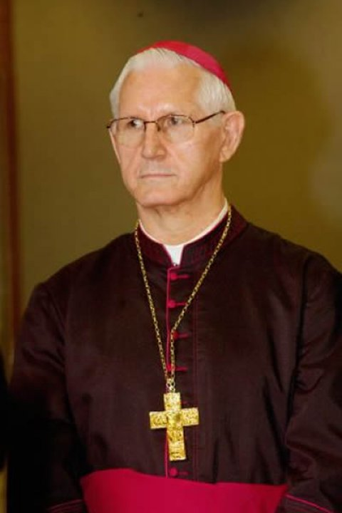 Photography Moacyr Joseph Vitti, Metropolitan Archbishop of Curitiba 2004 - 2014